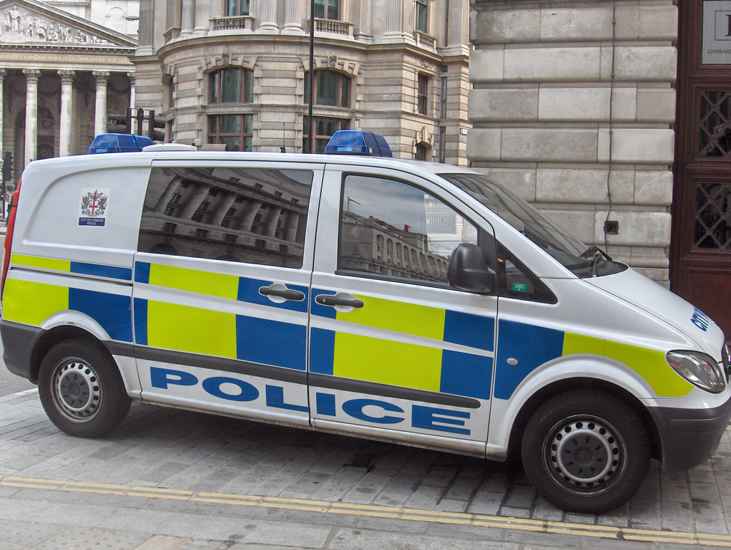 Police Van with City of London logo and livery